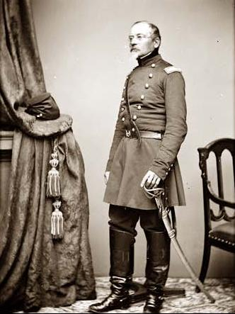 Henry Bohlen (October 22, 1810 – August 22, 1862) was an American Civil War Union Brigadier General. He was the first foreign-born Union general in the Civil War. Original format: Carte de visite image